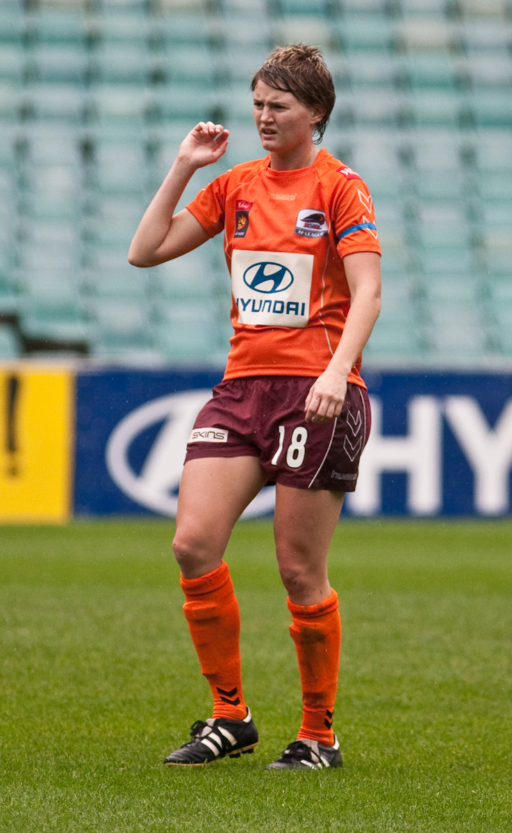 Courtney Beutel playing for the Brisbane Roar in the 2009 W-League.